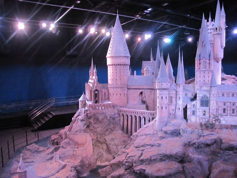 استودیو برادران وارنر (استودیو هری پاتر)